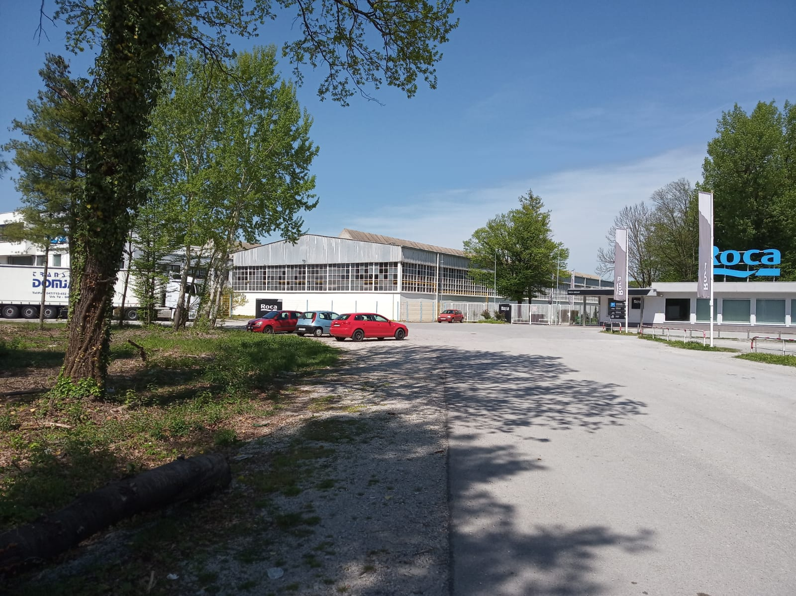 Ulaz u bivšu tvornicu Inker travanj 2019.